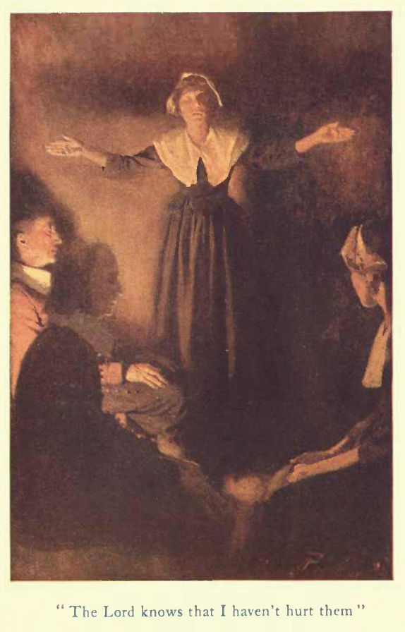 "The Lord knows that I haven't hurt them", Rebecca Nurse